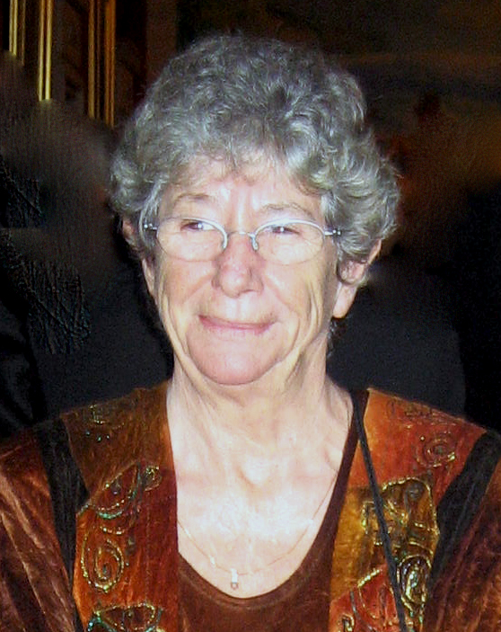 Israeli writer Ruth Yardeni Katz